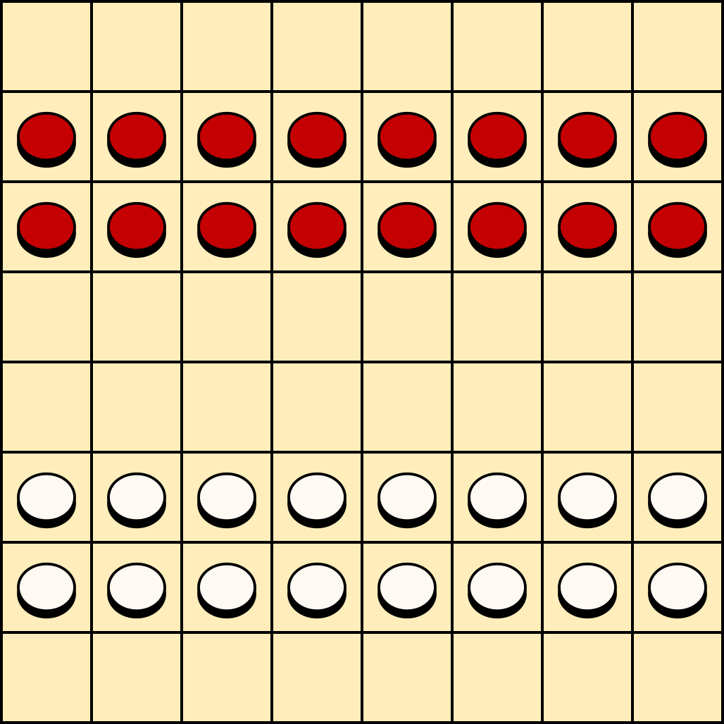 This is a modification of file TurkishDraughts.svg by User:Foxyshadis and/or User:SilverbackNet. Mono-colored (traditional) squares, and grid added. Done in MS Paint (.png file, sorry).